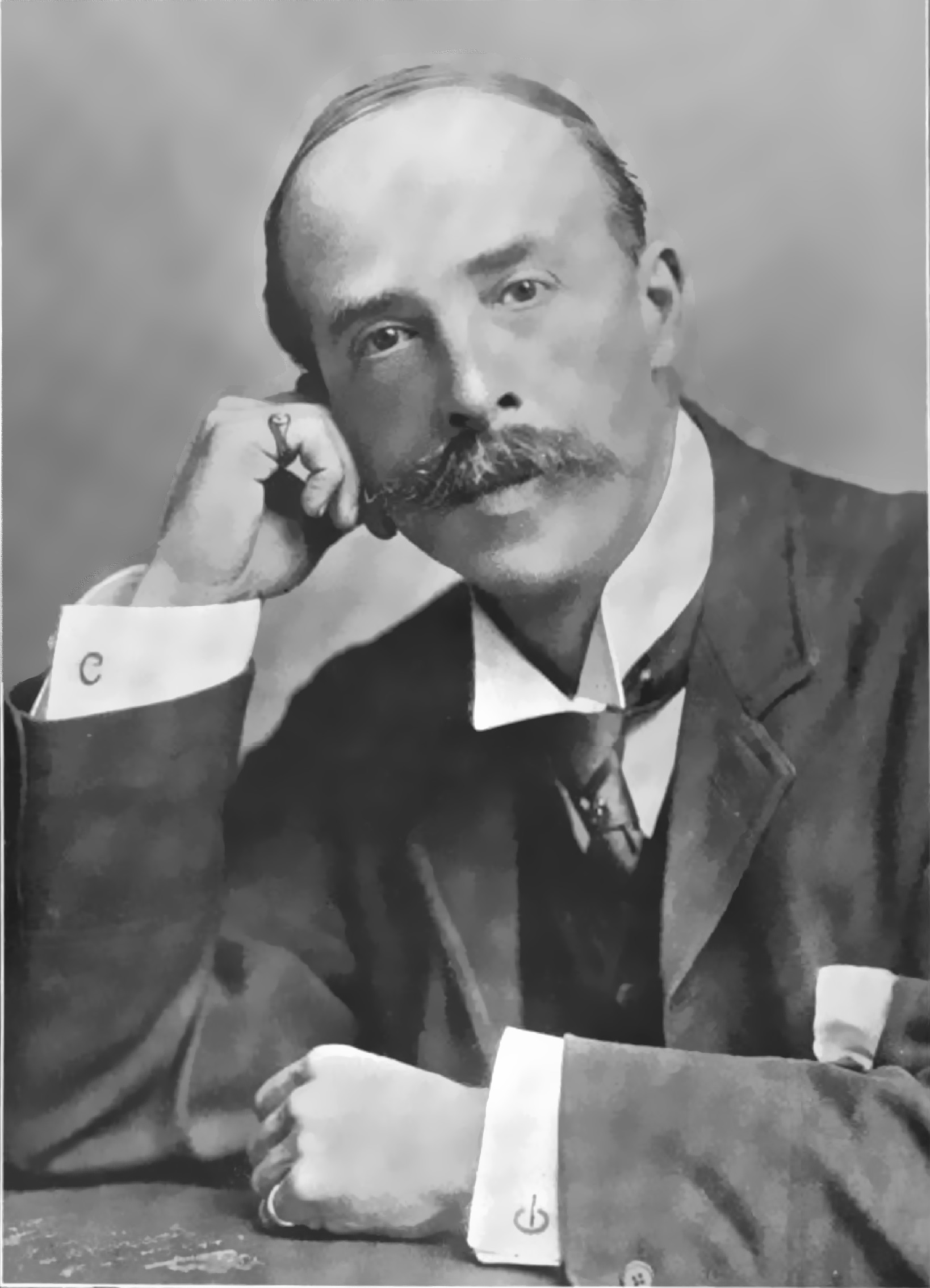 Sir Frederic Hymen Cowen (29 January 1852 – 6 October 1935), was a British pianist, conductor and composer.